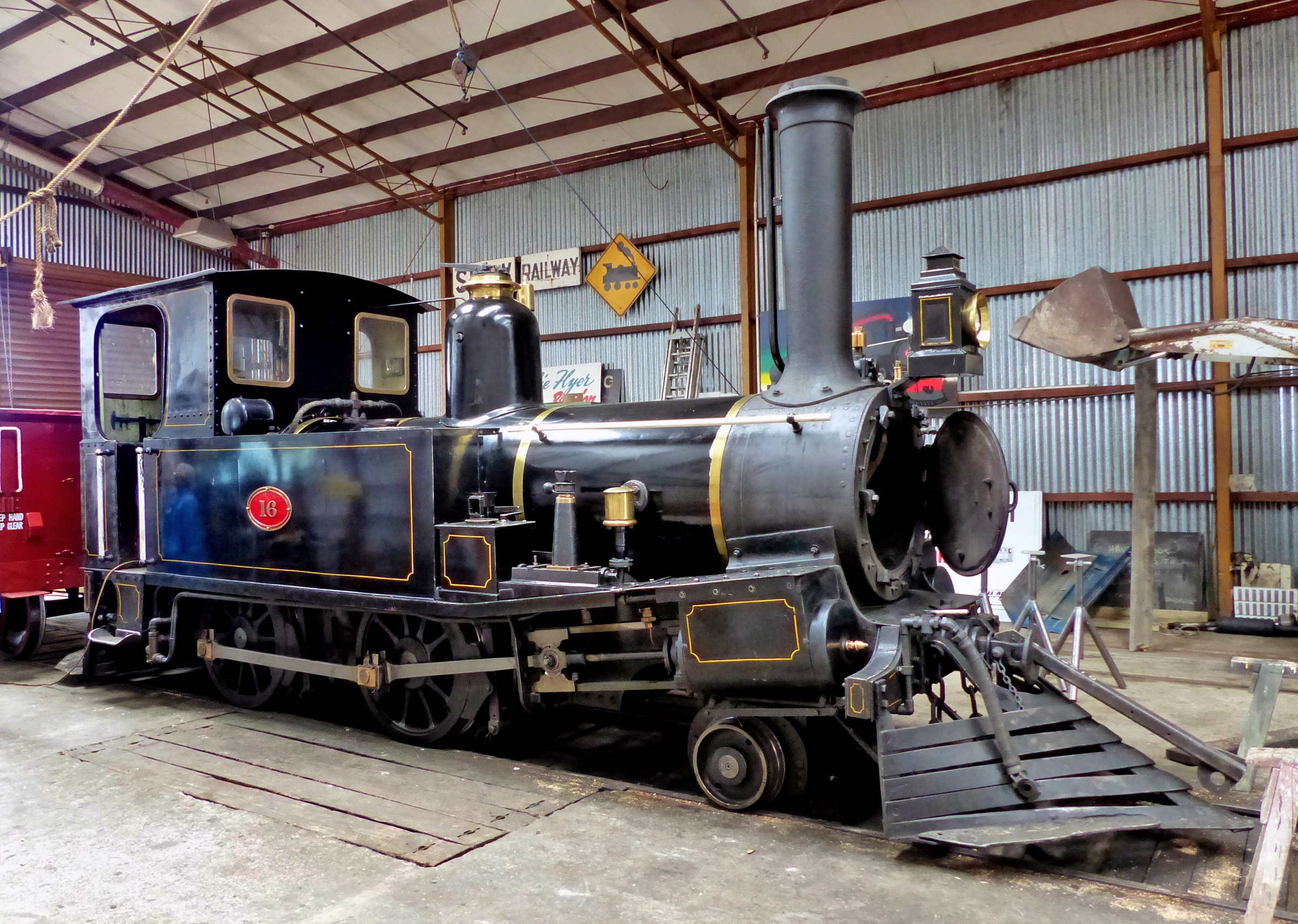 D 16 While the D doesn’t look her age, the little 2-4-0 engine was built in 1878 by the Scottish locomotive manufacturers Neilson and Company of Glasgow. It carries their maker's number 2306. After being shipped to New Zealand, the engine worked in various South Island locations on the New Zealand Railways system, from Christchurch to Bluff, along with stints in Timaru, Oamaru and Gore. While in those days rail was considered a swift mode of transport, a trip on the D to Christchurch took eight hours. Now, it is a two-hour journey by car. In 1913, a new boiler was fitted and the little loco worked for another five years before being sold in September 1918. It was bought by the New Zealand Refrigerating Company [later to become Waitaki International Limited] for use as a shunter at the Pukeuri Freezing Works, north of Oamaru. There it remained, giving faithful service to its new owners, until it was made redundant in the early 1970s and placed on a concrete plinth in the yard. Come 1985, and the engine was on the move once more. The management of Waitaki International Limited donated the D to the Pleasant Point Museum and Railway on the condition that it was restored to full working order. Work began immediately after it was transported to Timaru on March 23, 1985. Restoration to full working order took just over two years and cost something in the order of $15,000. After being given a new lease of life, D16 then re-commissioned at Pleasant Point on May 13, 1987. It has worked ever since and is the first of two 'D' class locomotives to be fully restored and operating in New Zealand.